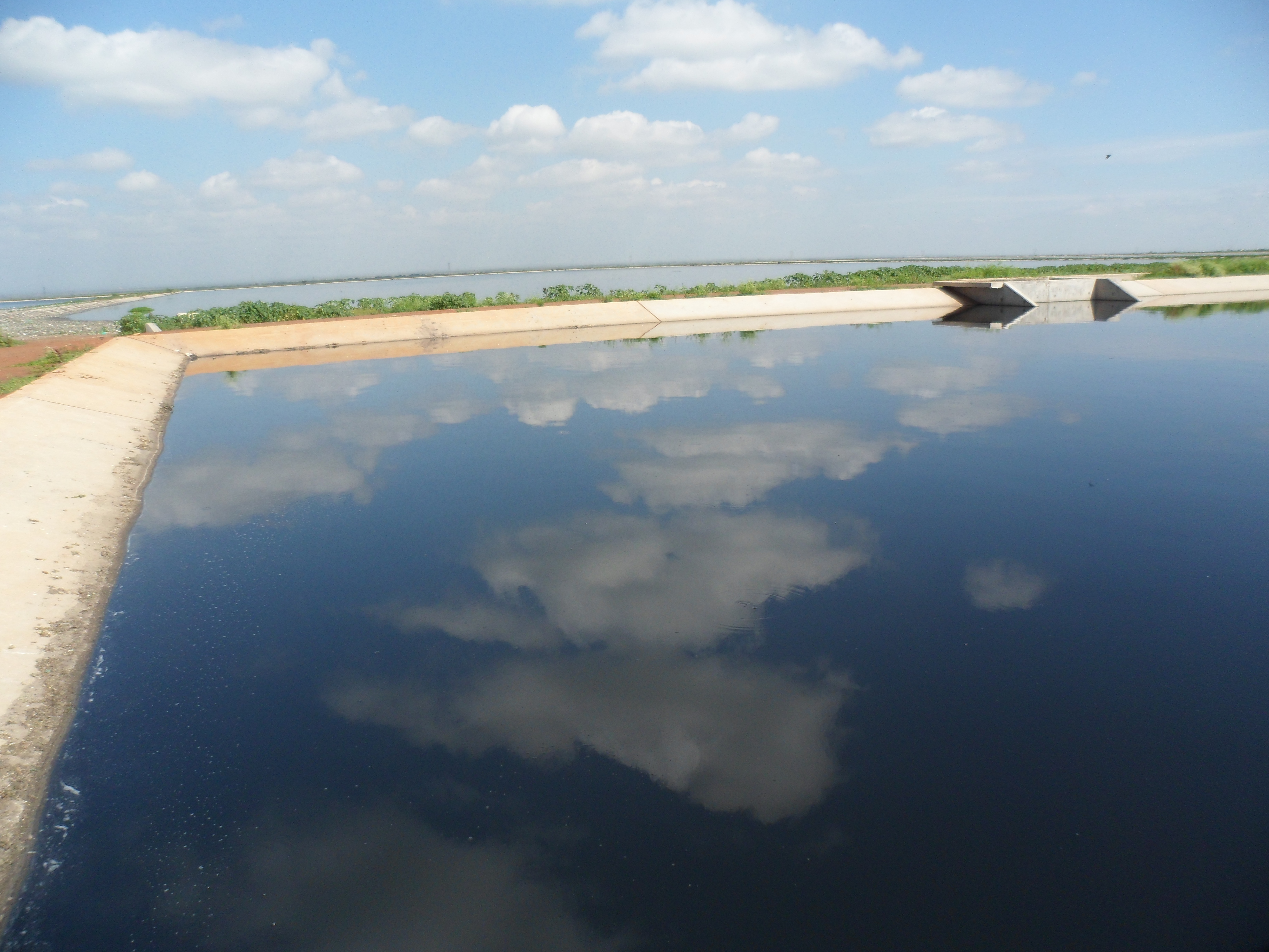 In Ruai, there are 11 anaerobic ponds, 8 facultative ponds and 3 maturation ponds.